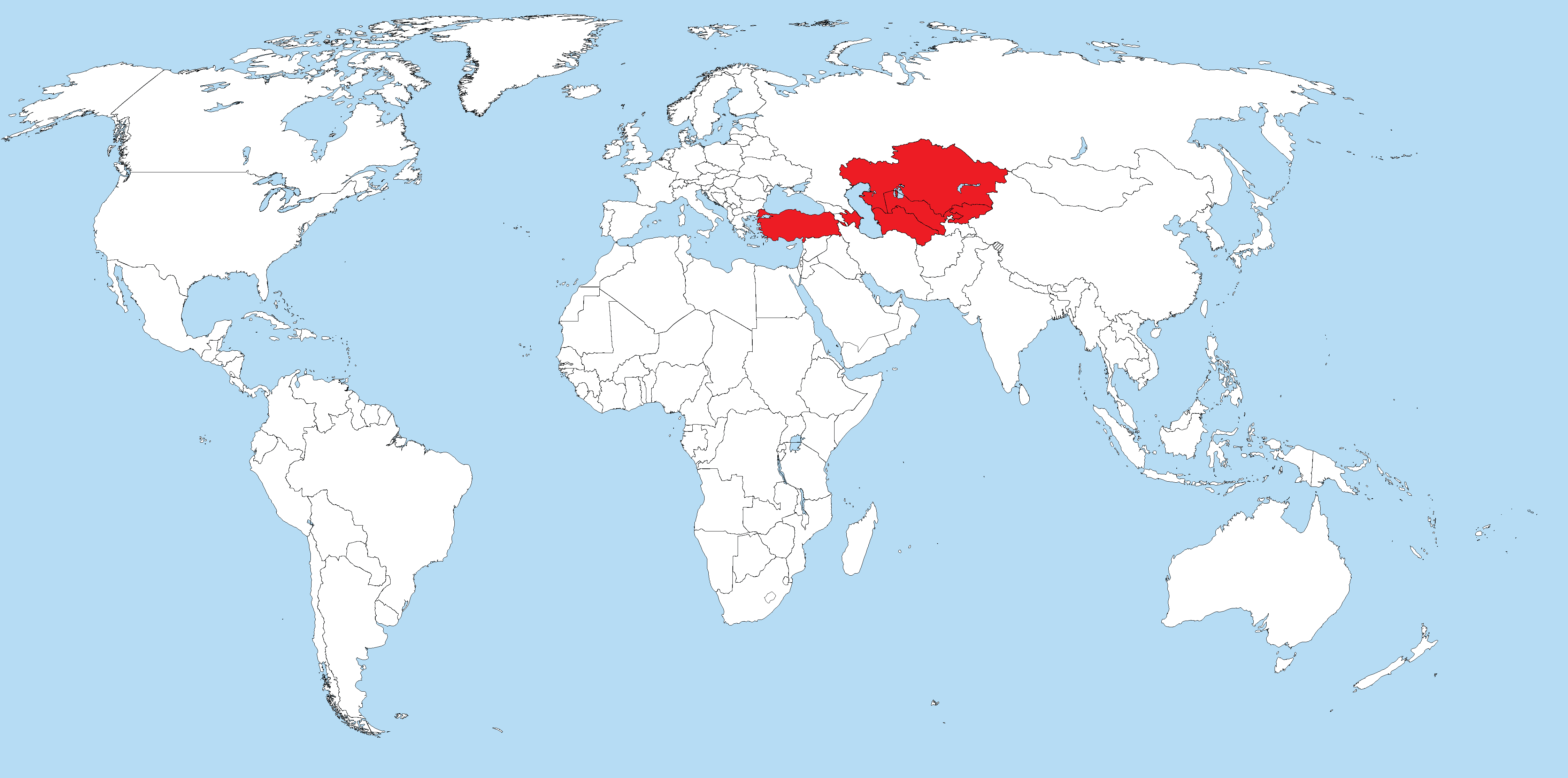 Map of independent Turkic countries